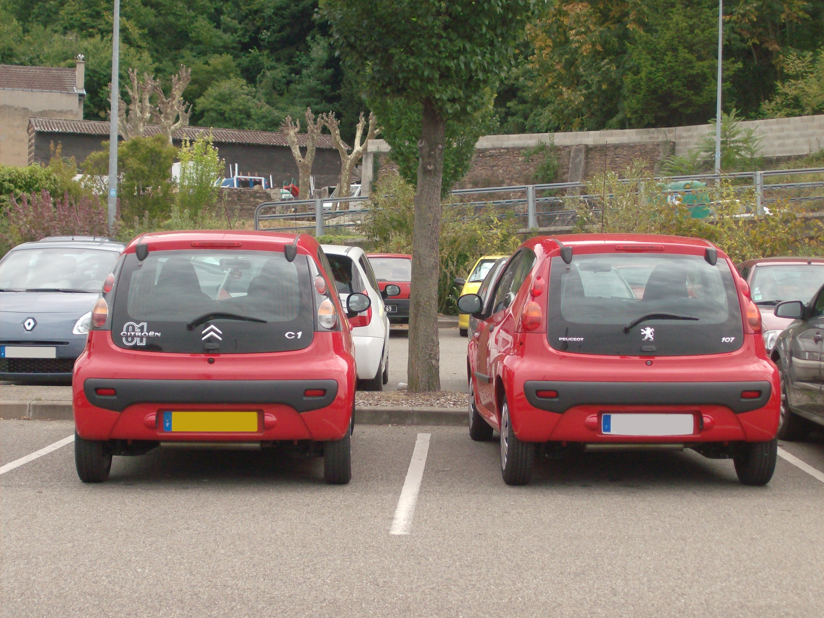 Peugeot 107 and Citroën C1 rear